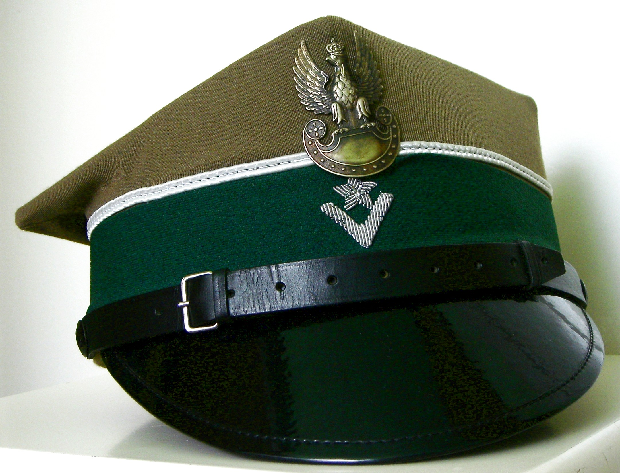 Polish military rogatywka cap (this is Joy's first rogatywka)